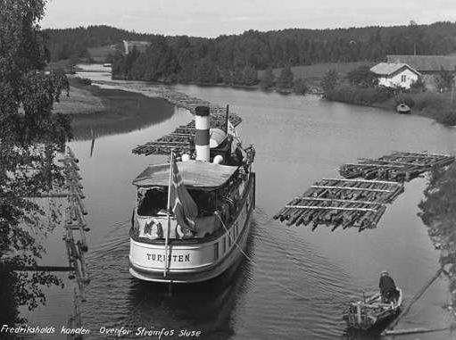 Norwegian passengership SS Turisten, built in 1887